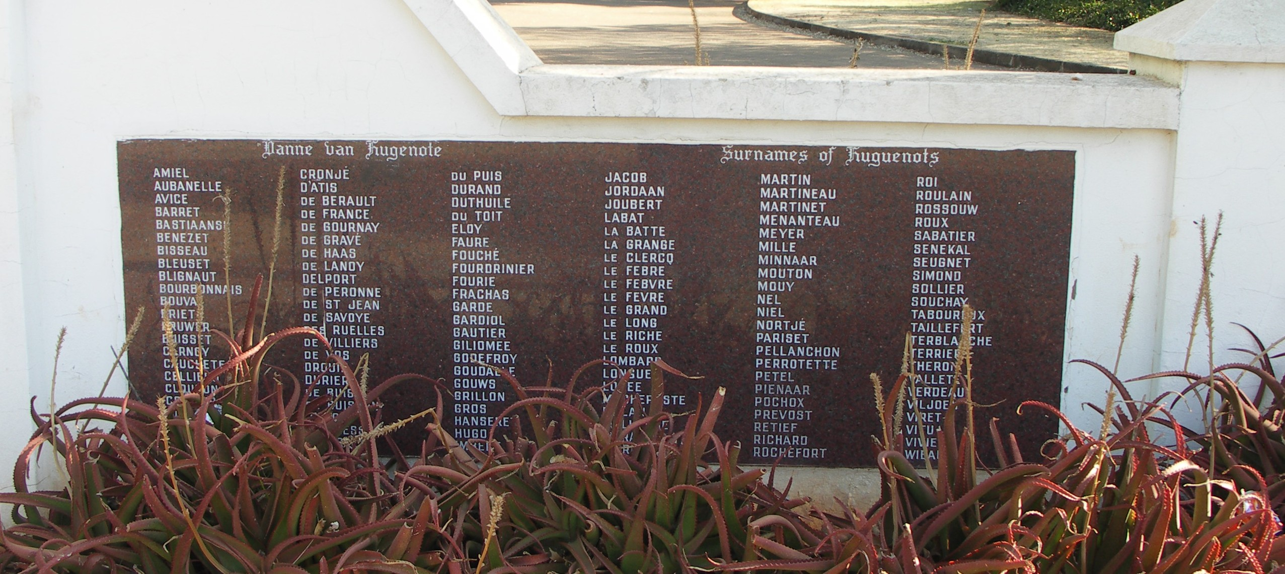 Surnames of the Huguenot families on the Huguenot Memorial in the Johannesburg Botanical Garden. The memorial commemorates the 300th anniversary (1988) of the arrival of the Huguenots in South Africa.